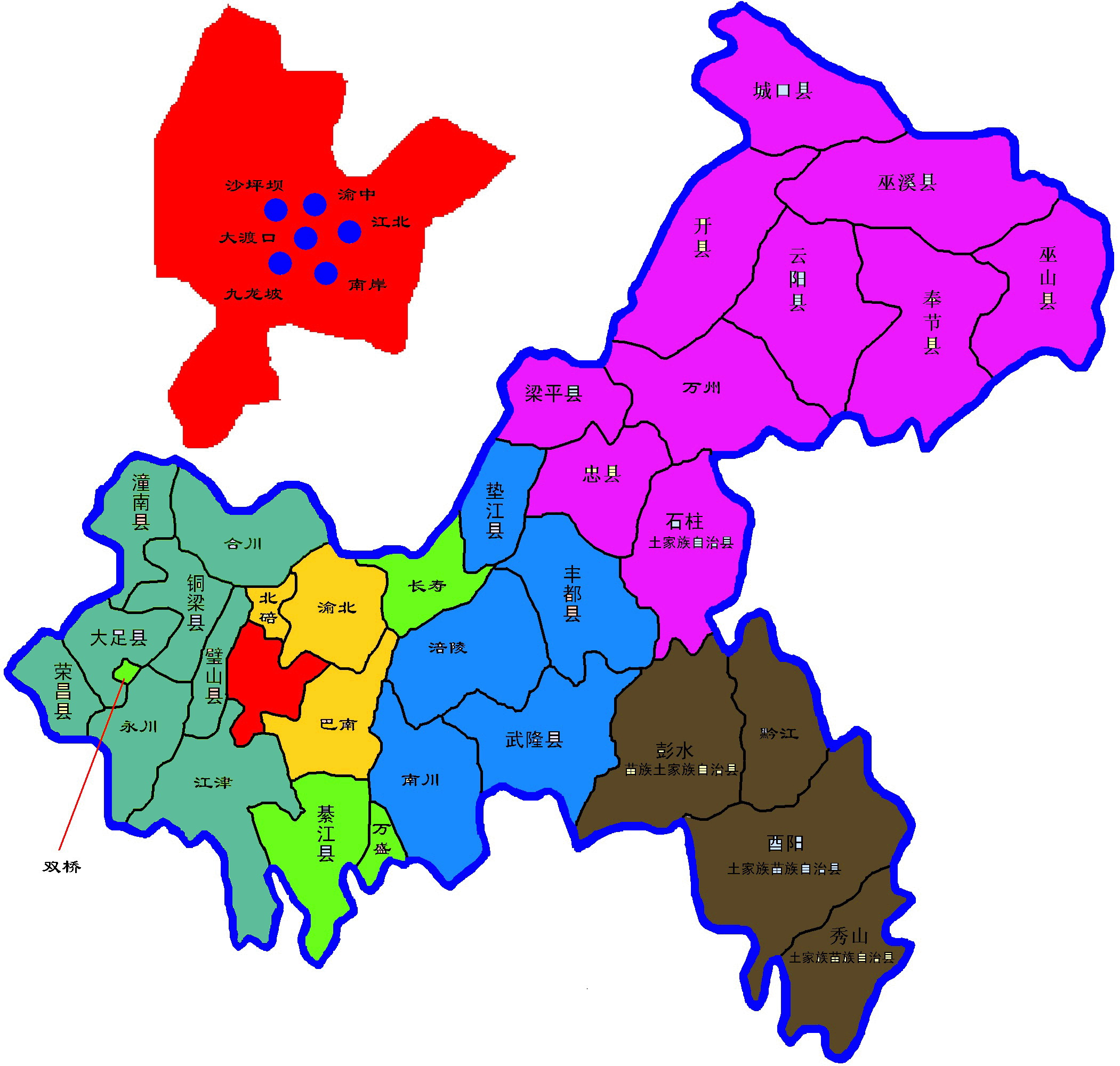 map of Chongqing